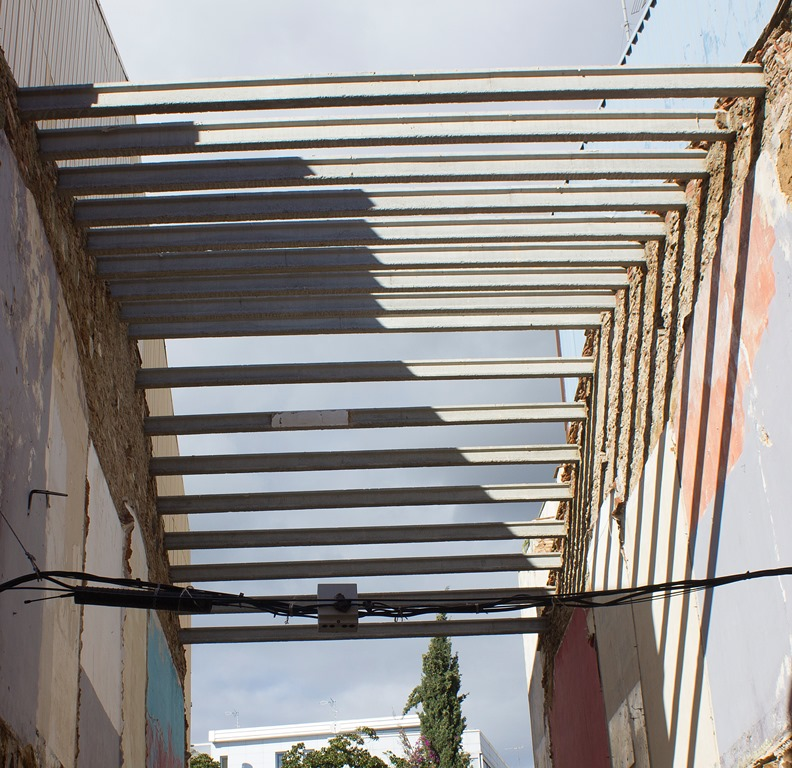 Cós entre dues parets paral·leles que suporten el sostre de bigues